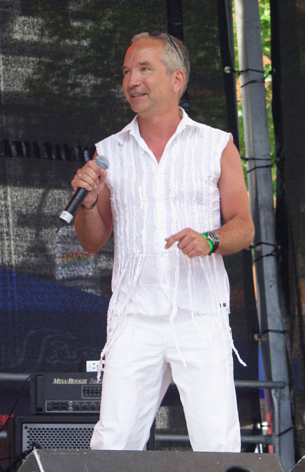 Claus Vinçon at the "Heumarkt" in Cologne, Germany du zum ColognePride 2006.